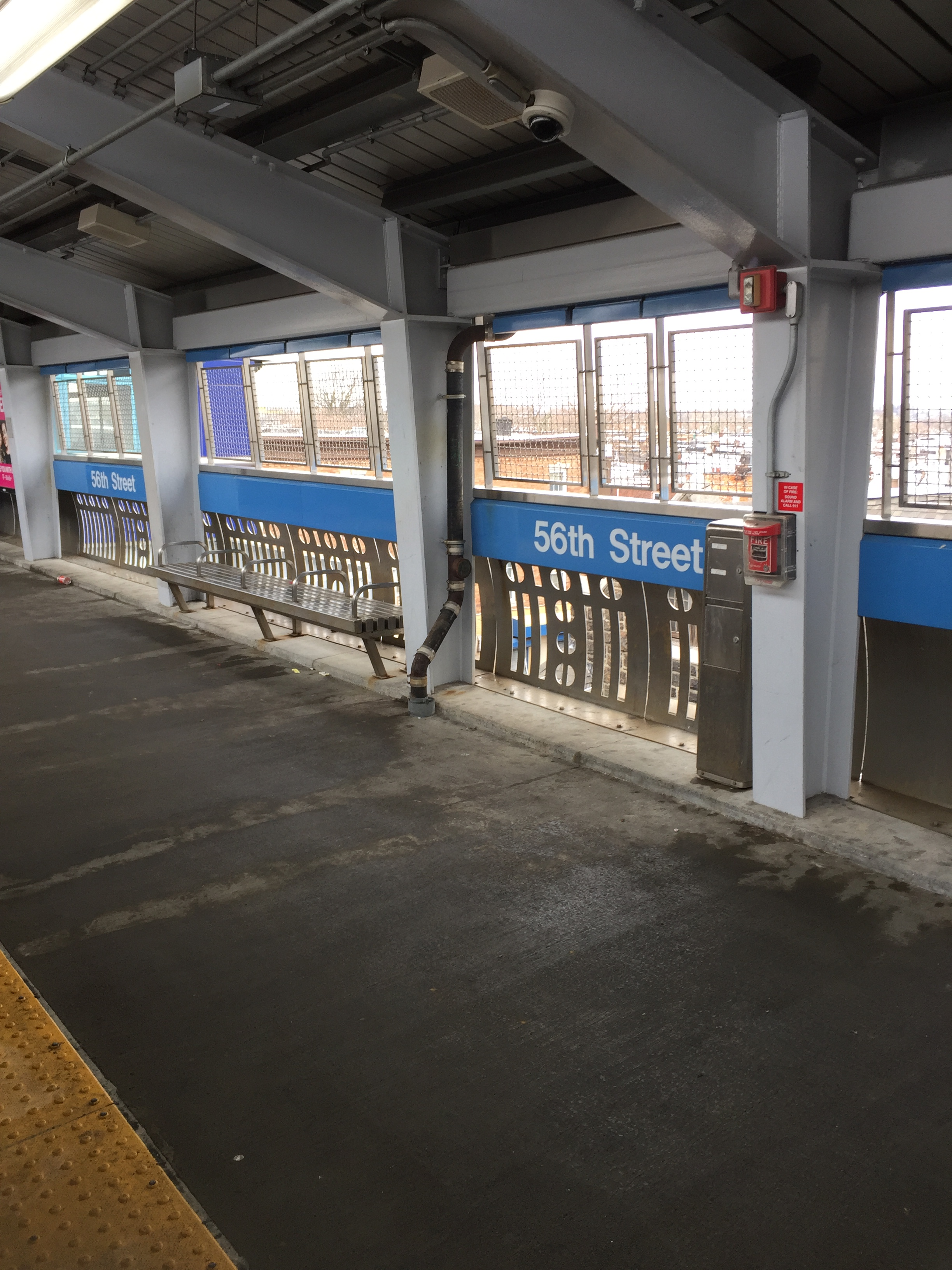 56th Street station